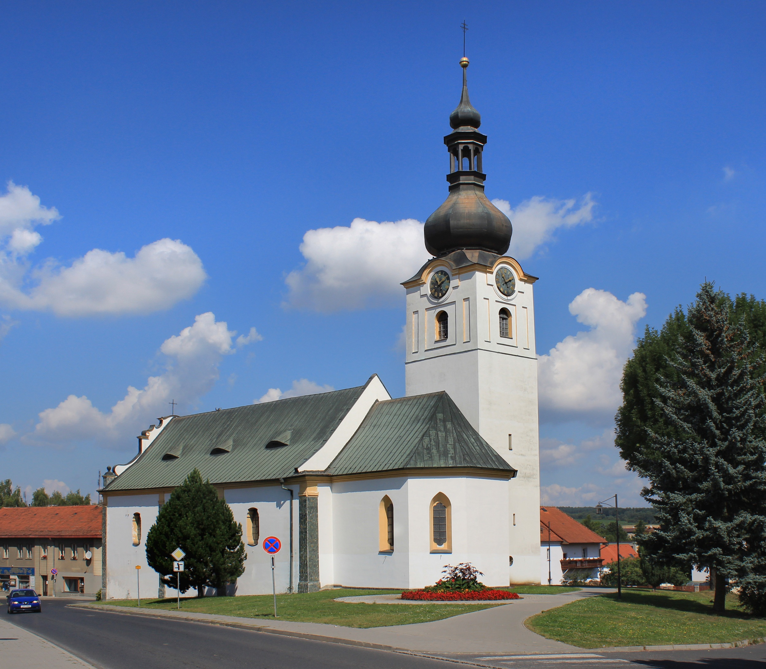 Church of James the Greater in Staňkov, Czech Republic.